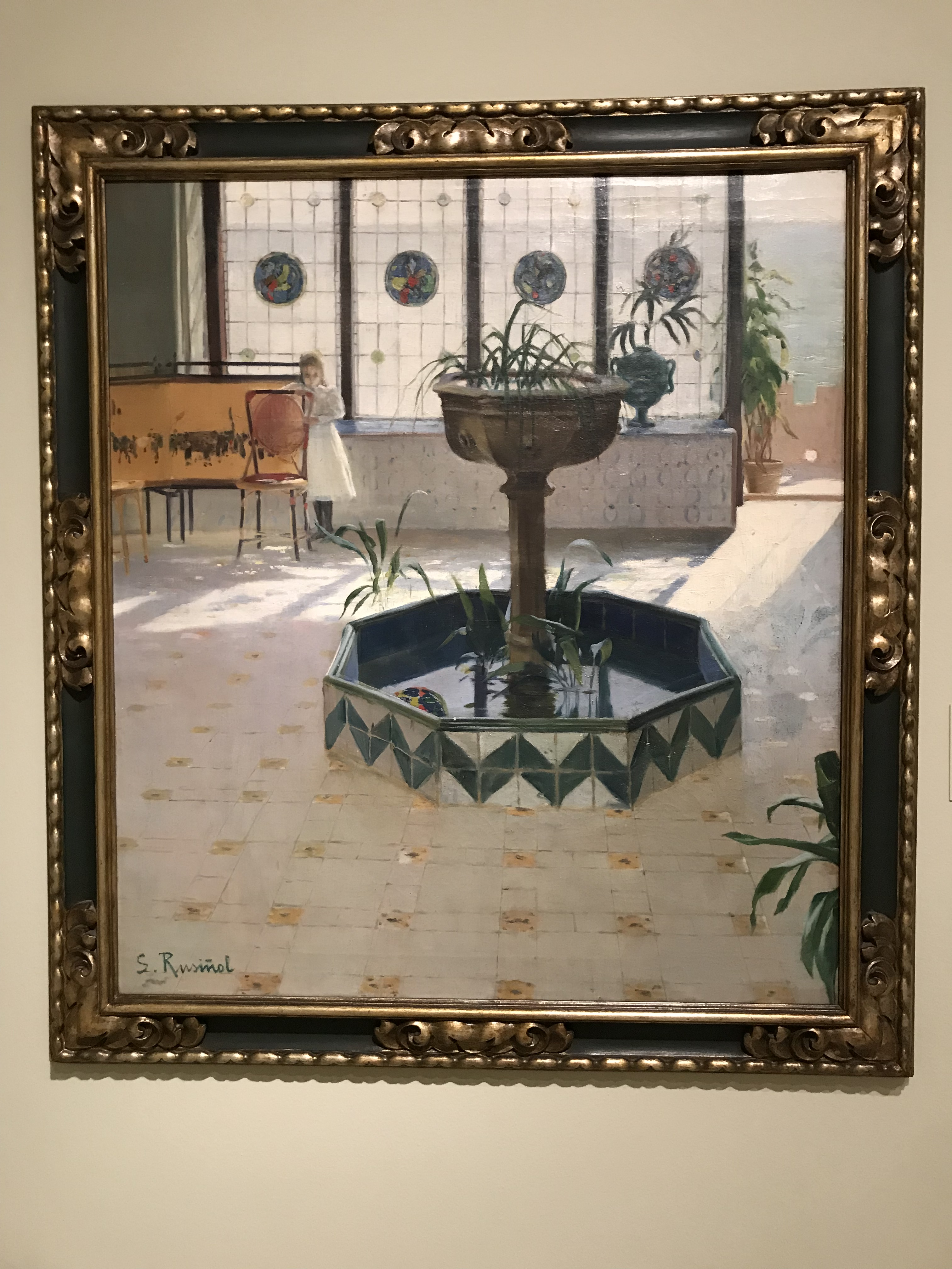 Maŕia Rusiñol at the Cau Ferrat from a private collection